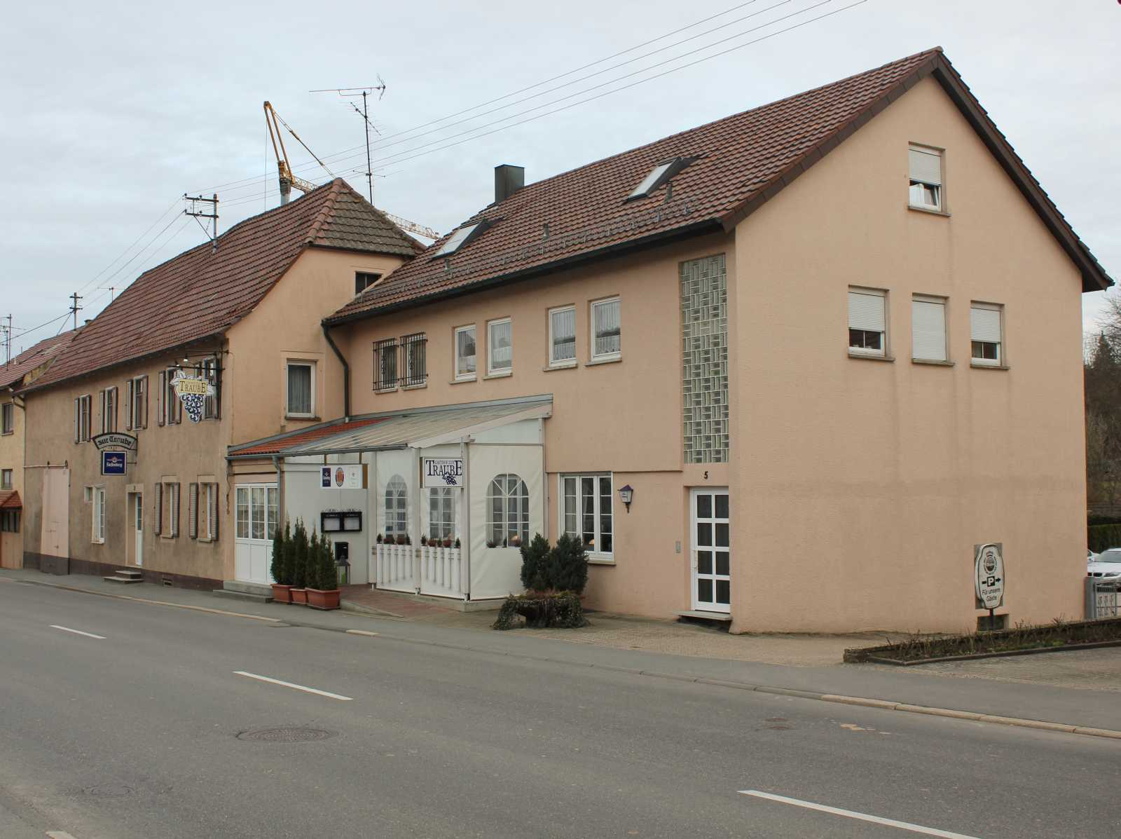 guesthouse "Traube" in Fürfeld, Bad-Rappenau